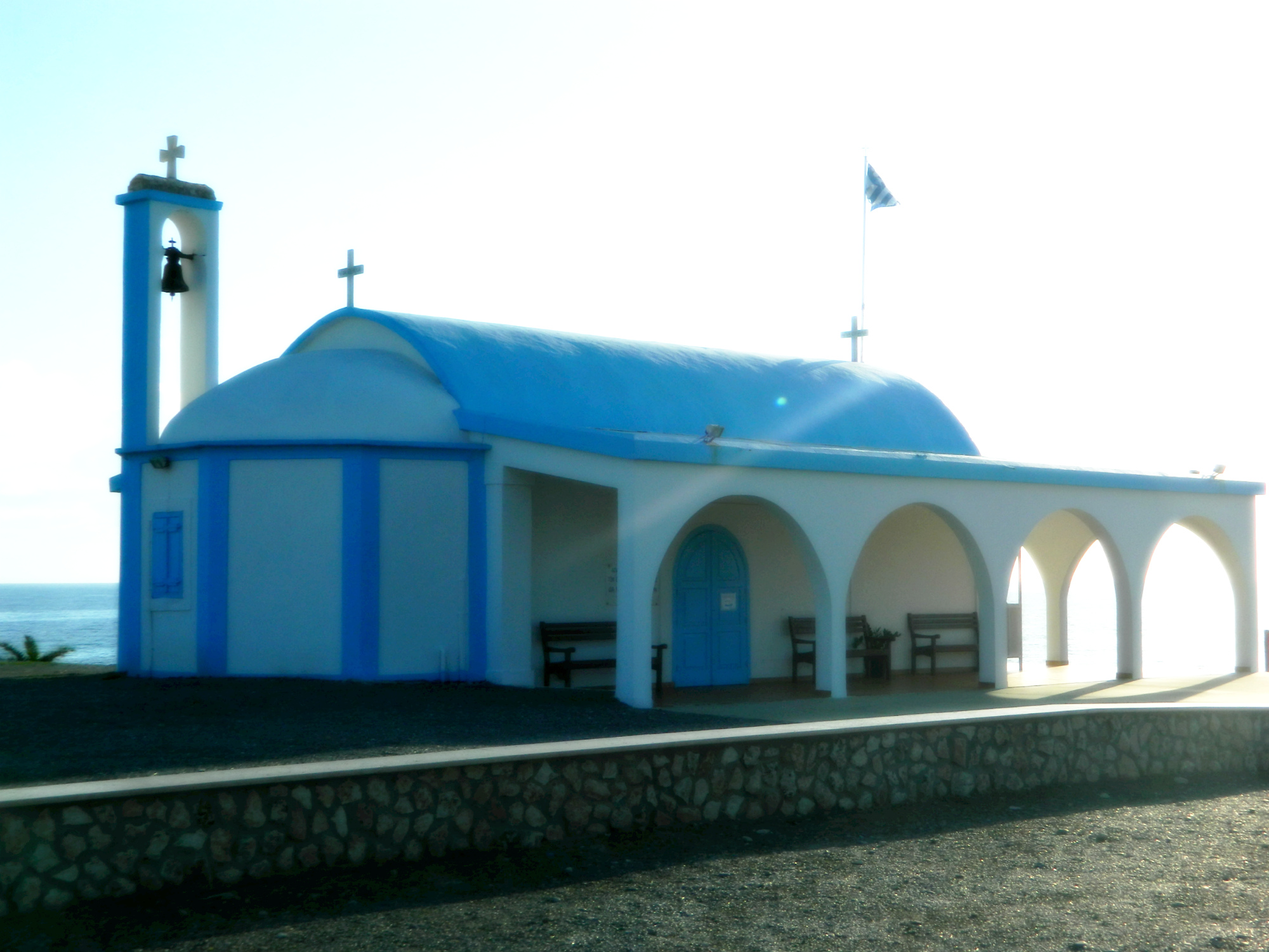 Maybe the best choice for you to be married. The magnificent view and the historic site of Ayia Thekla form the ideal landscape.